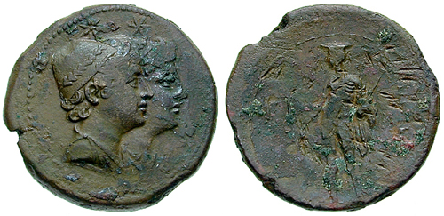 BRUTTIUM, Rhegion. Circa 215-150 BC. Æ 29mm (14.21 gm). Jugate draped busts of the Dioscuri right / Hermes standing left. VF/fair, light brown patina. SNG ANS 753ff; Rutter HN 2553.